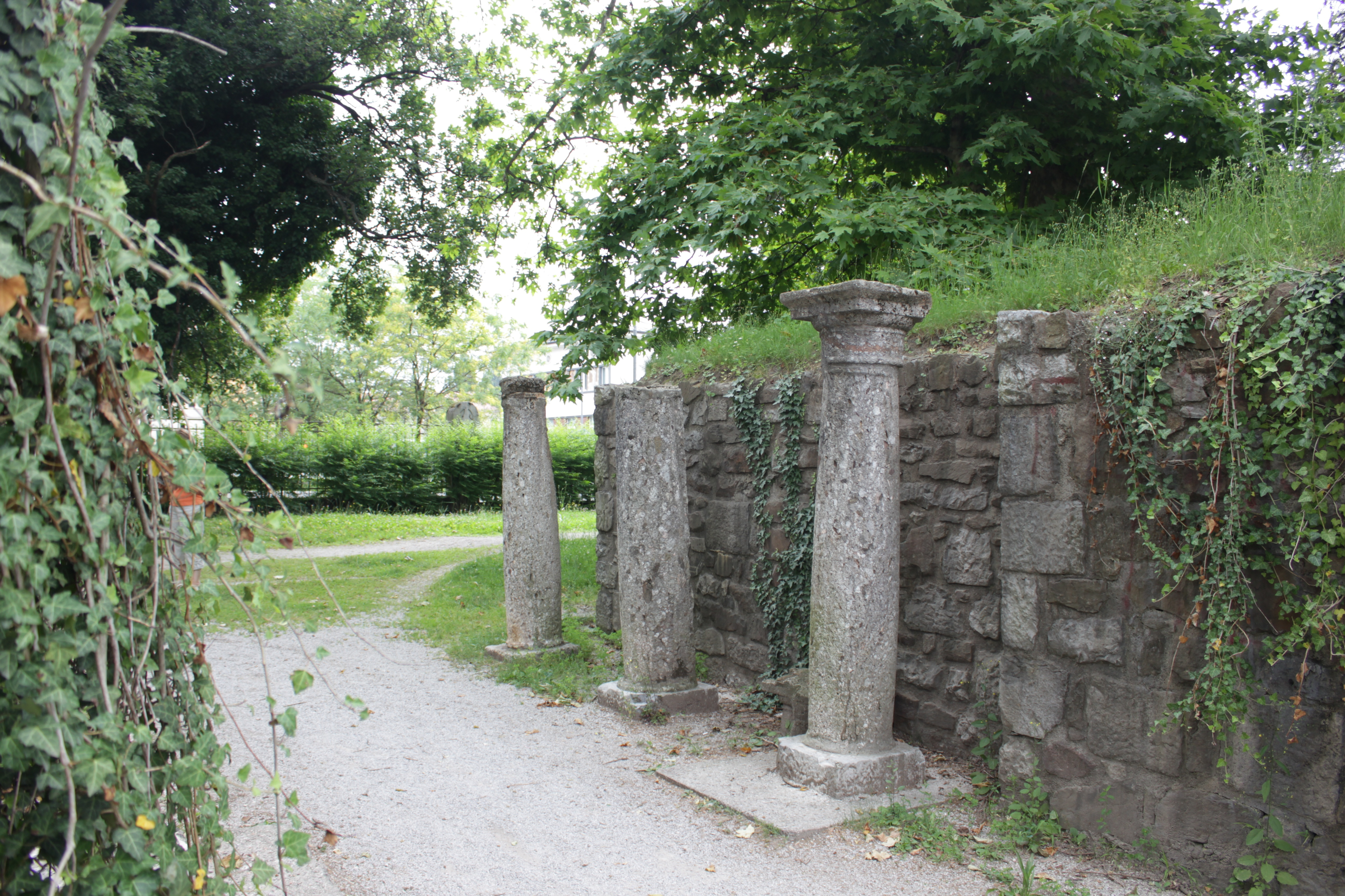 The Roman City Walls